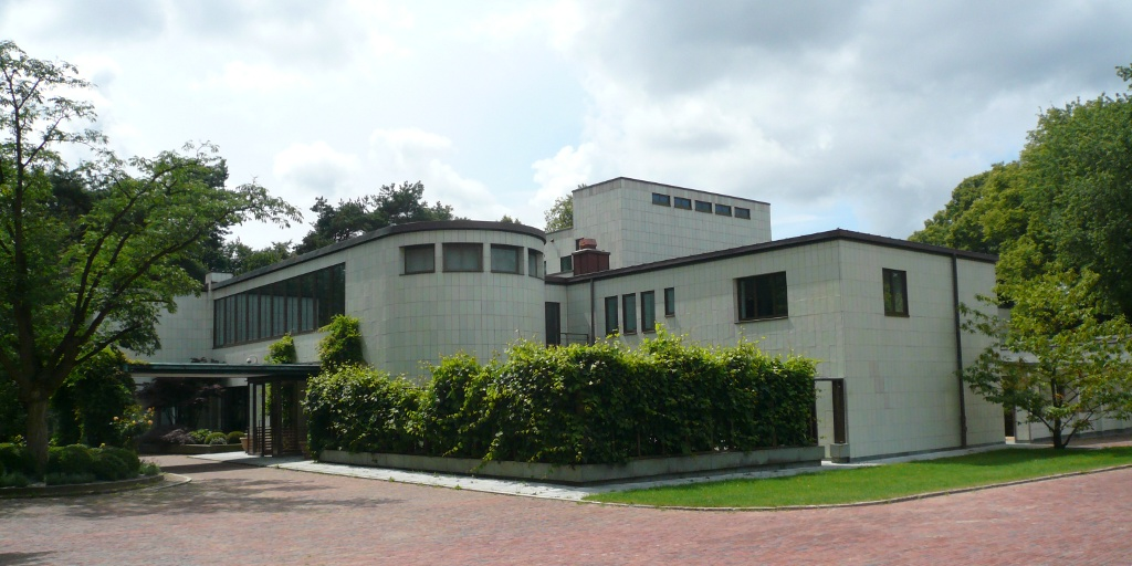 Haus K. in O. -Villa Reemtsma - in Hamburg Othmarschen This is a photograph of an architectural monument.